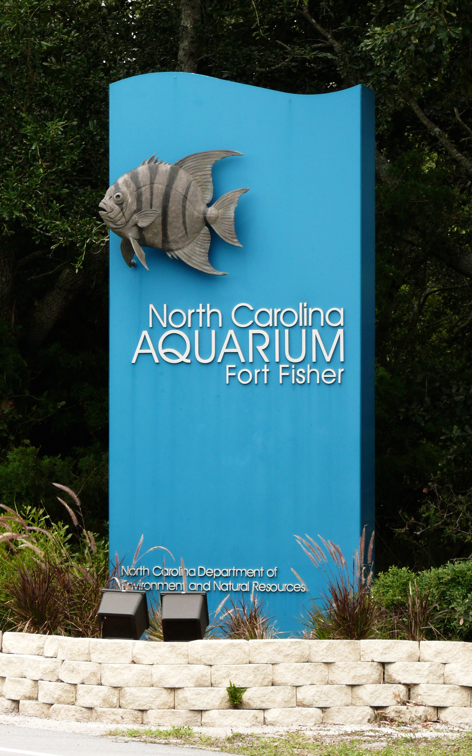 Sign at the entrance to the North Carolina Aquarium at Fort Fisher. Photo taken with a Panasonic Lumix DMC-FZ50 in New Hanover County, NC, USA.